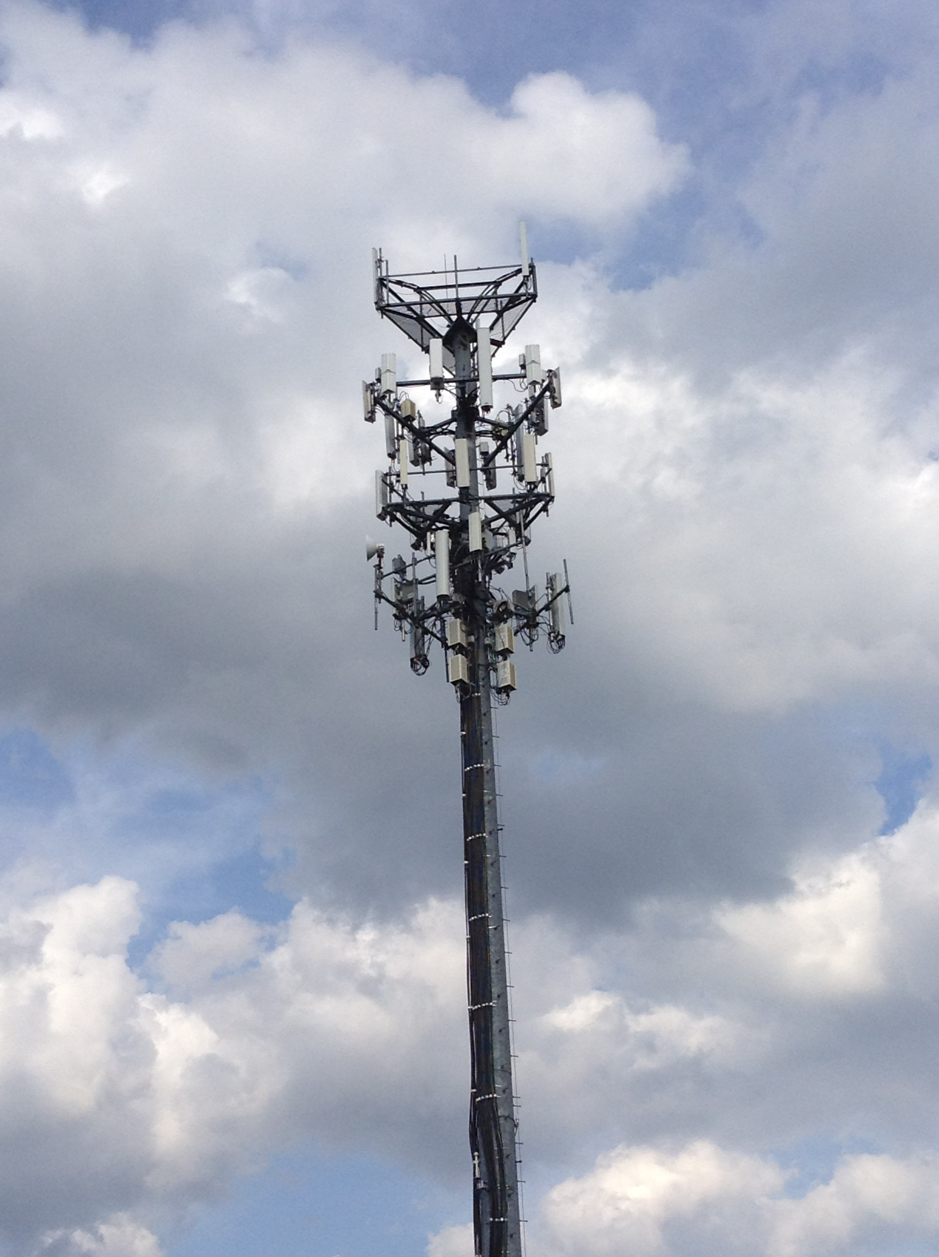 A cellular antenna tower located in Philadelphia,PA